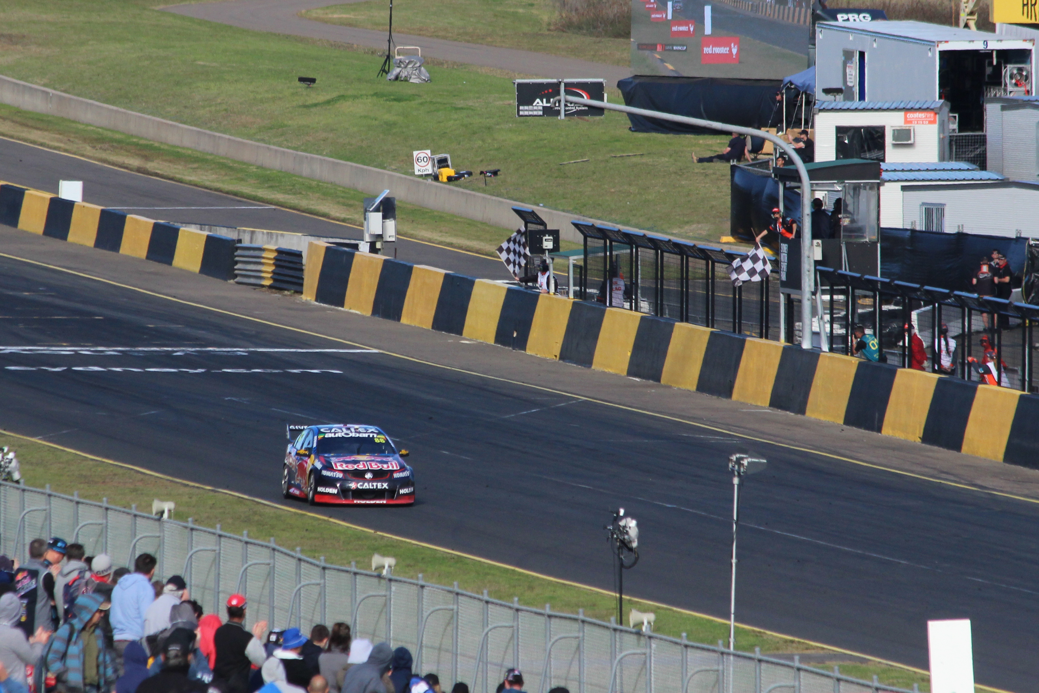 Jamie Whincup (Triple Eight Holden VF Commodore) win Race 19 at the 2016 Red Rooster Sydney SuperSprint, his 100th championship race win in the Supercars Championship.